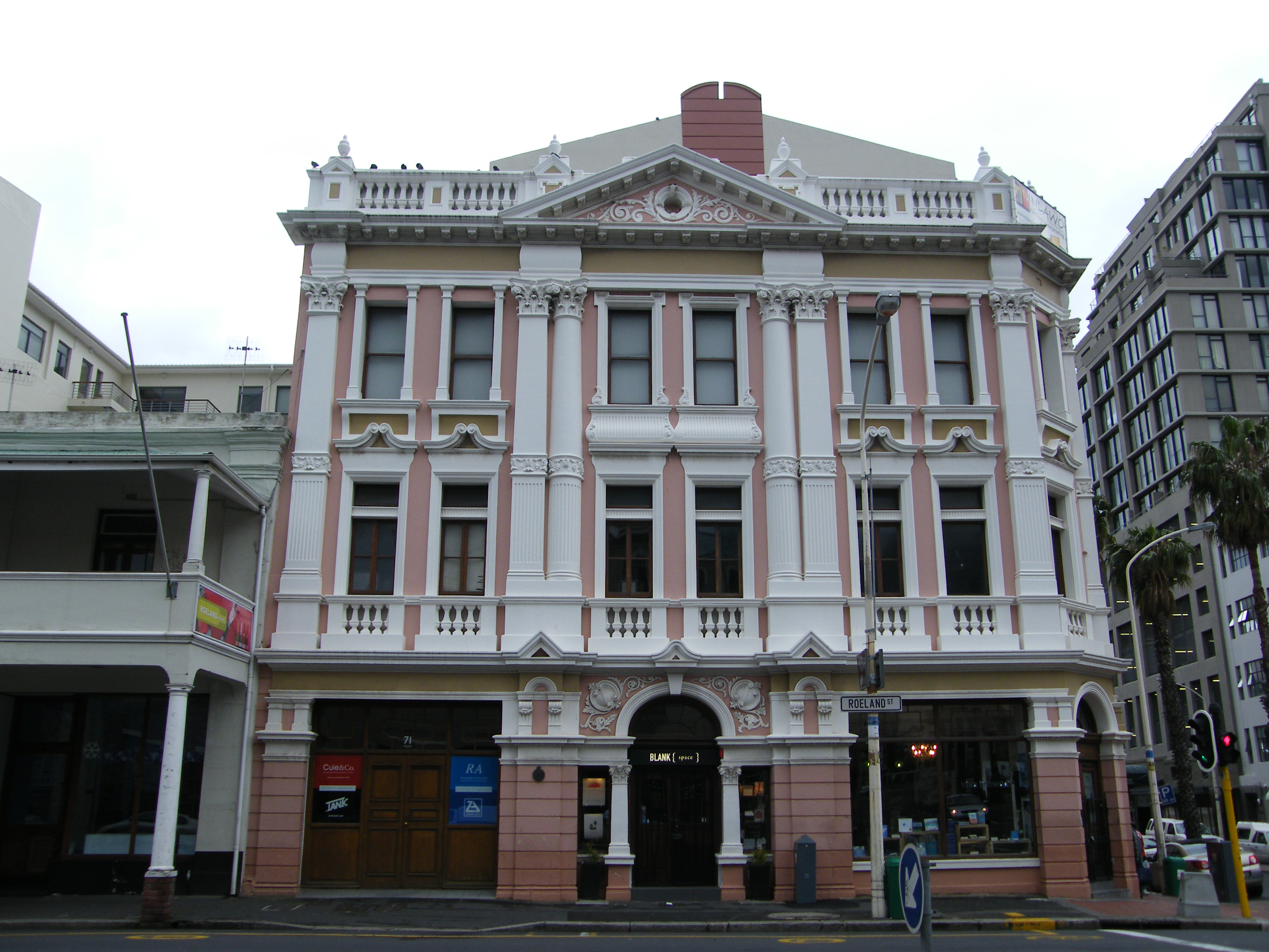 This media shows a South African Protected Site with SAHRA file reference 9/2/018/0085.